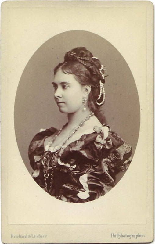 Crown Princess Victoria of Germany (1840-1901)